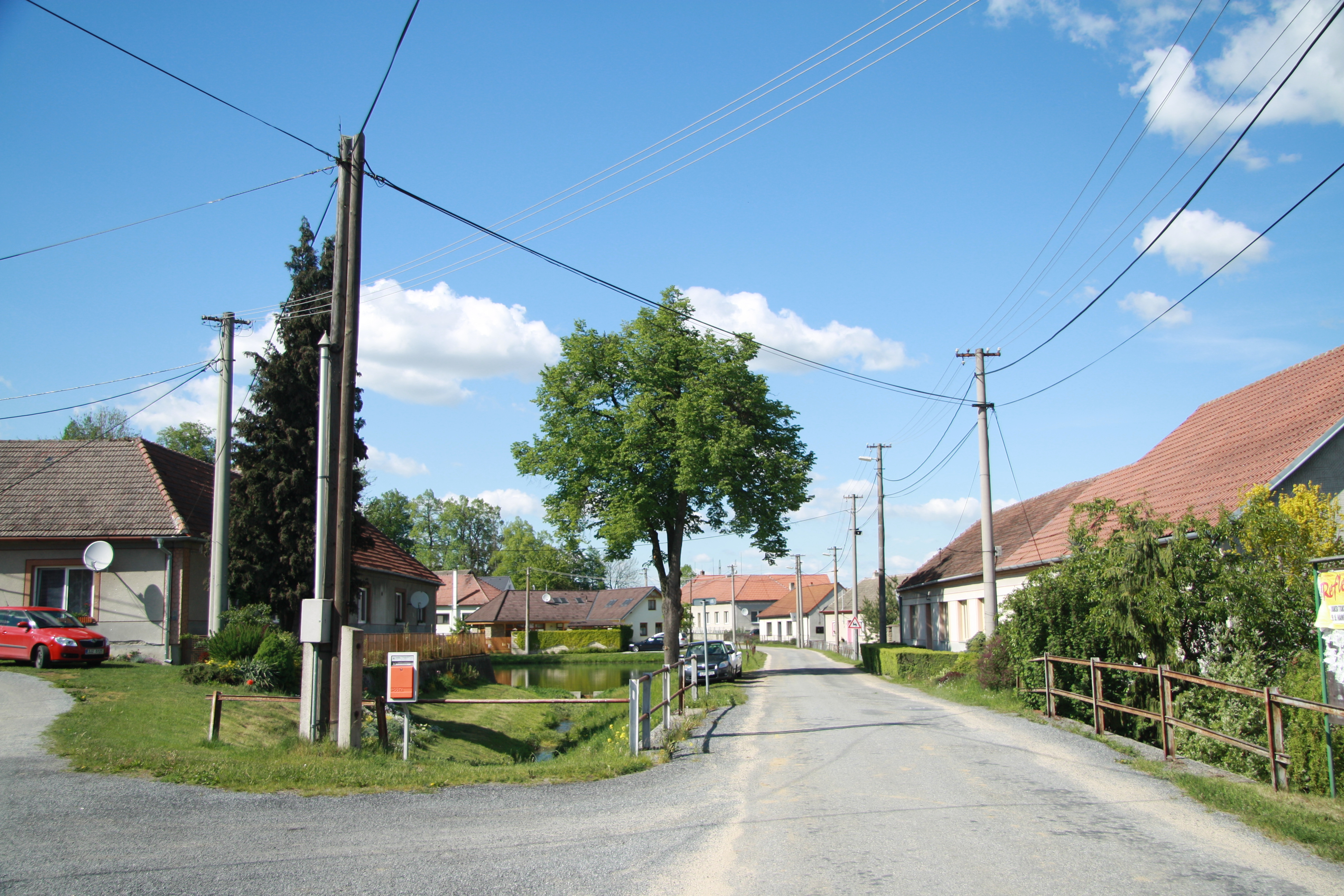 Center of Častotice, Třebíč District.